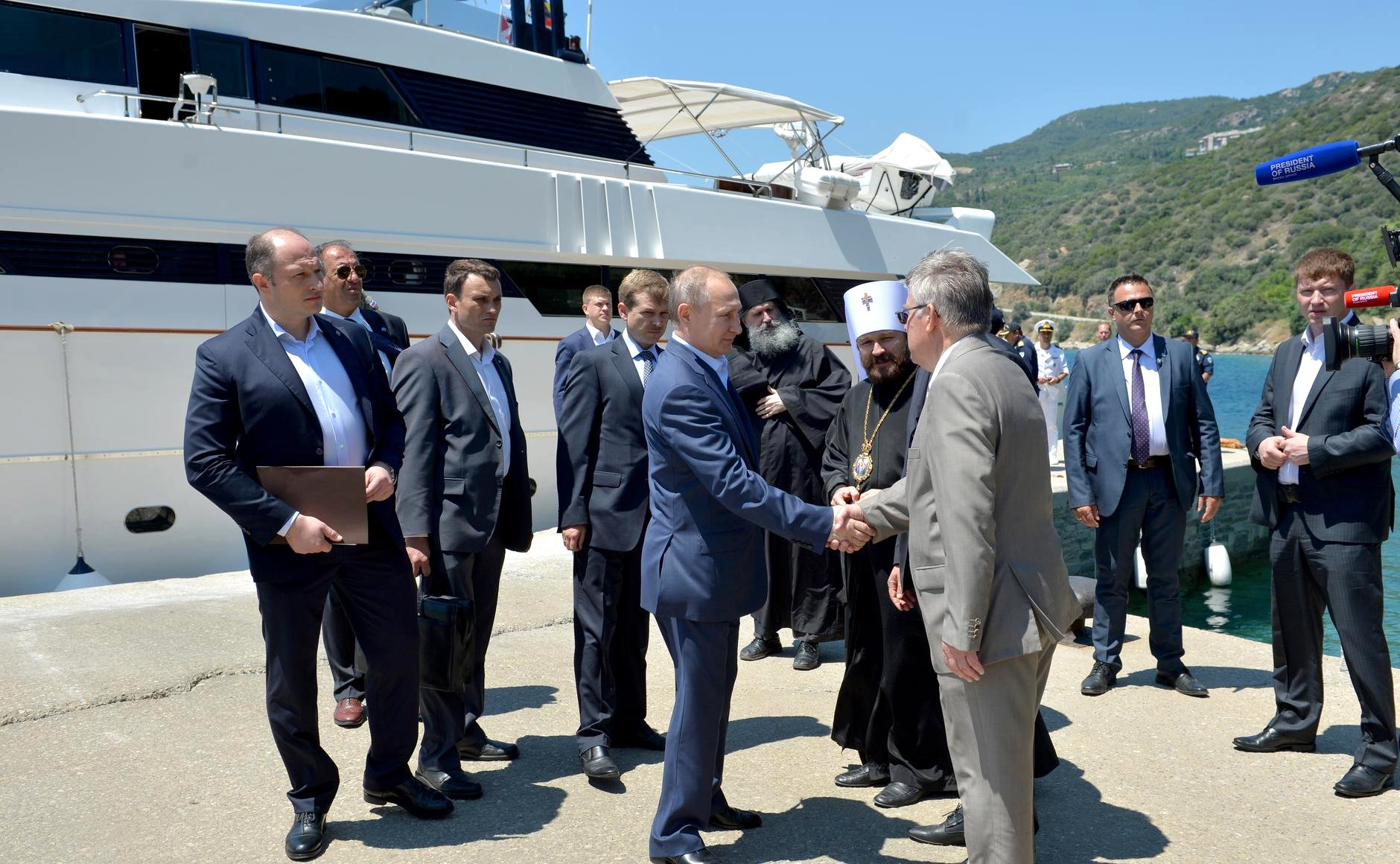 Russian president Vladimir Putin visit mount Athos on 28 may 2016.